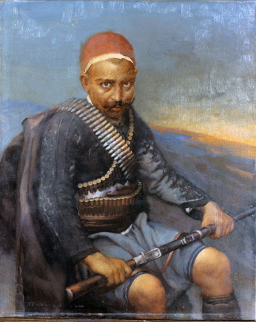 Portrait of the robber Chakidji